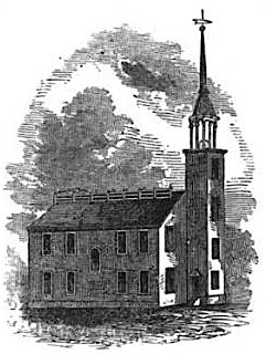 Federal Street Church, Boston, built in 1744.